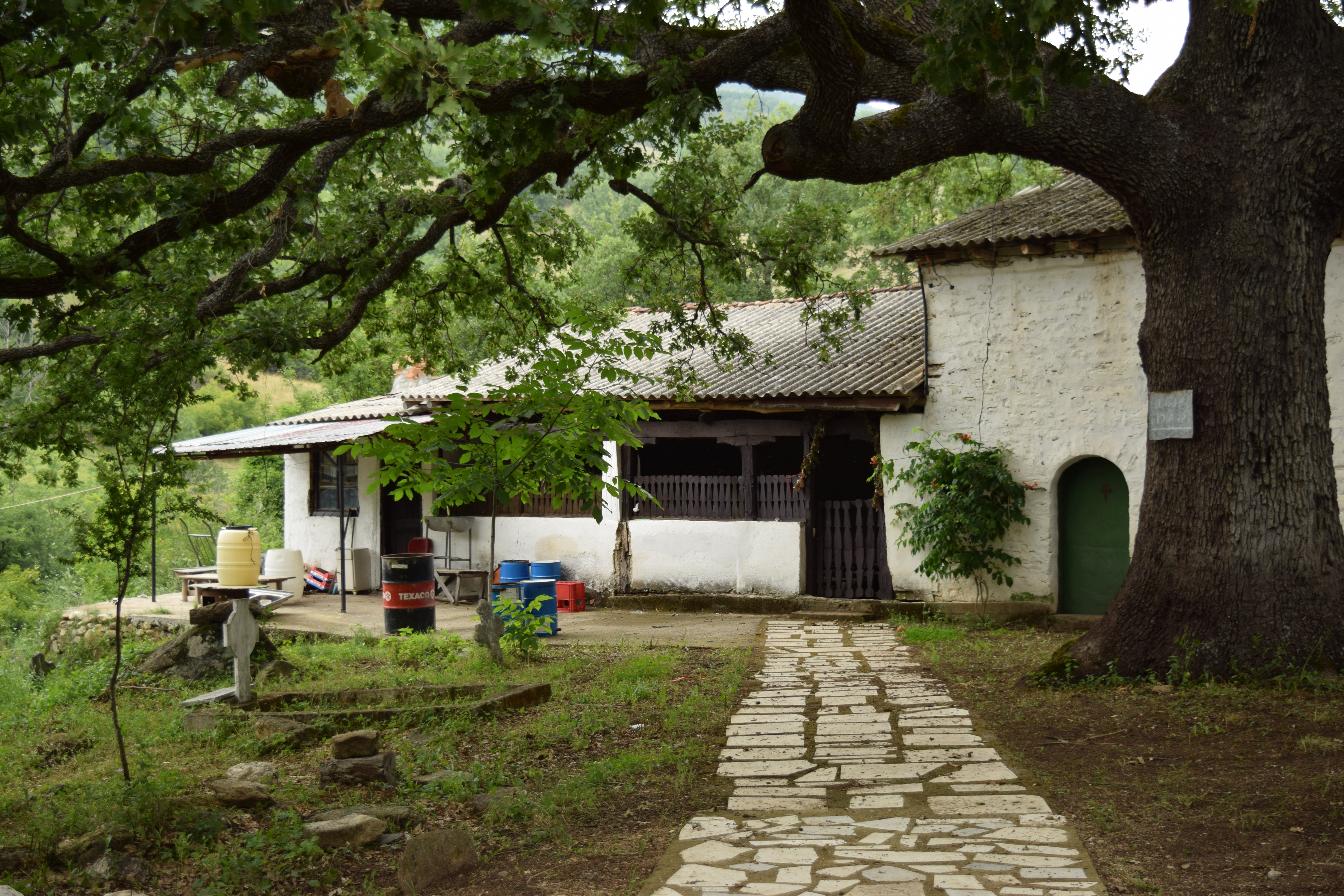 View of the St. Nicholas Church in the village Stepanci